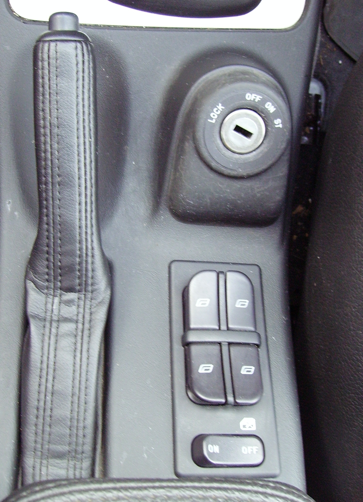 Ignition switch (Saab 9-5)